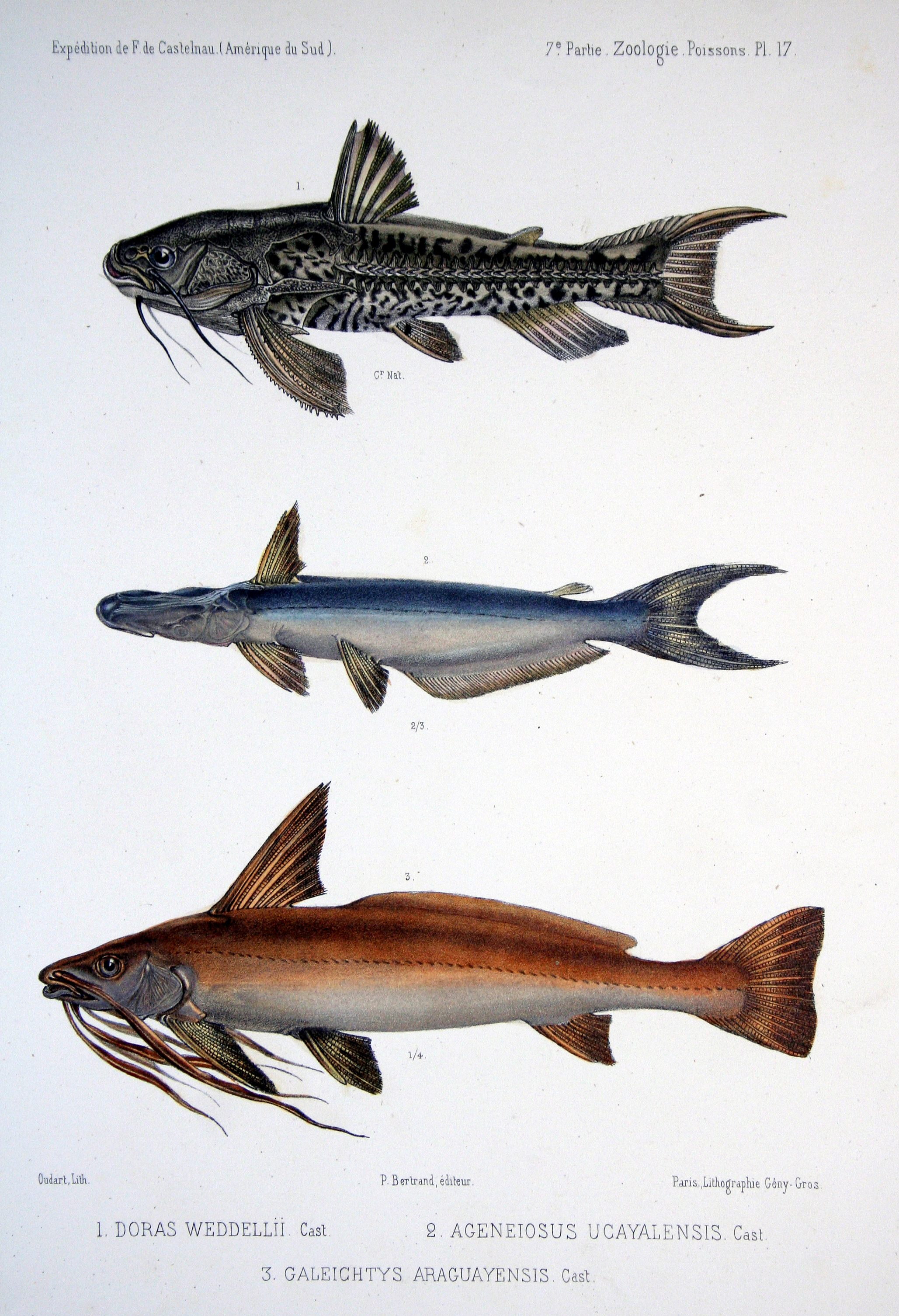 From top to bottom: Doras weddellii Cast. = Anadoras weddellii (Castelnau, 1855) Ageneiosus ucayalensis Cast. = Ageneiosus ucayalensis Castelnau, 1855 Galeichthys araguayensis Cast. = Pinirampus pirinampu (Spix & Agassiz, 1829)